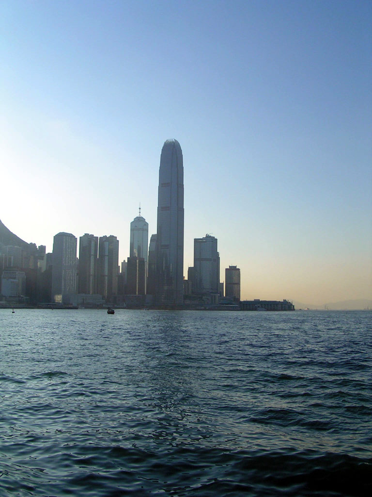 Central seen from Victoria Harbour